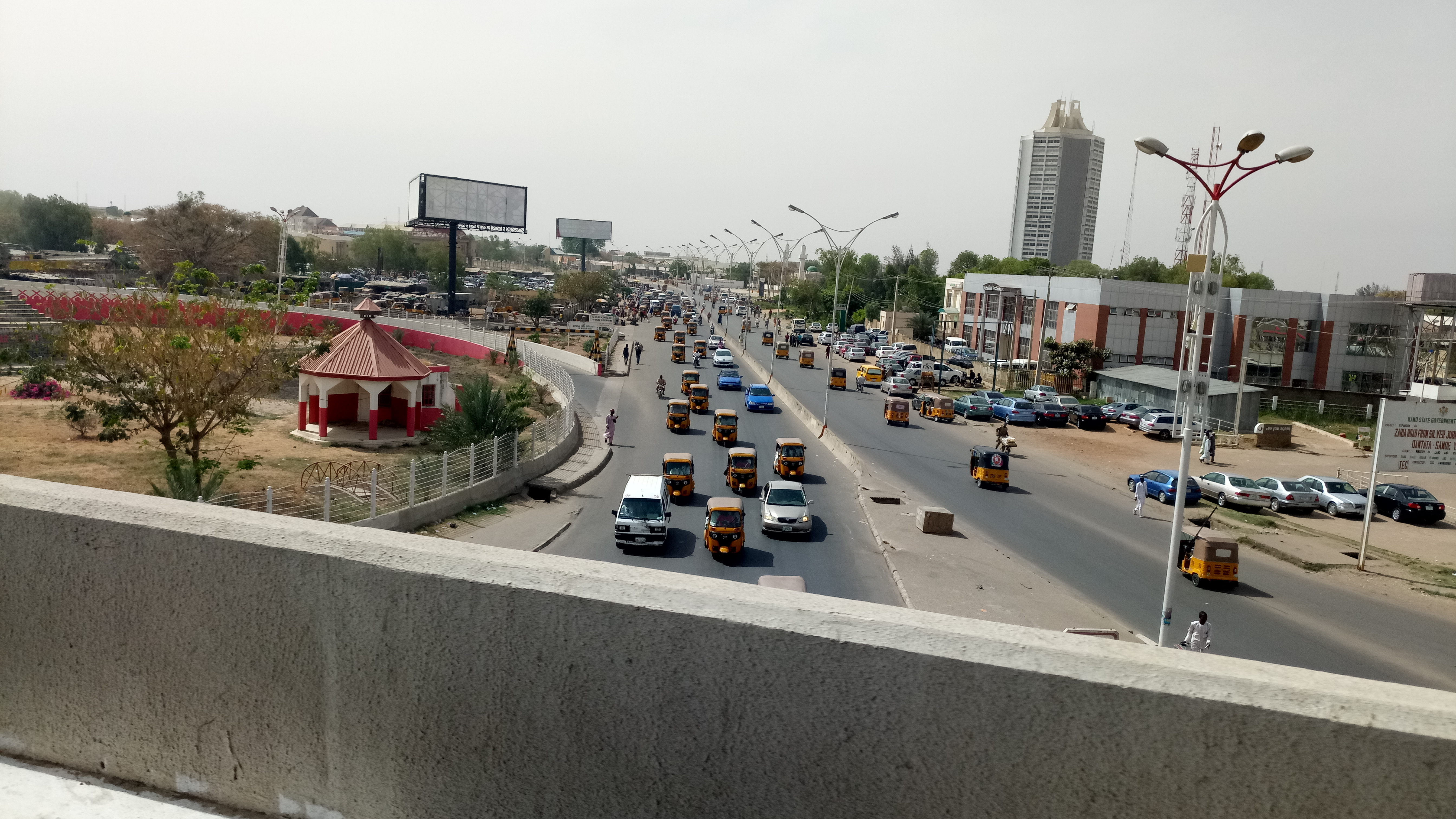 A view of the ancient Kano State City, Nigeria from the Olusegun Obasanjo bridge.